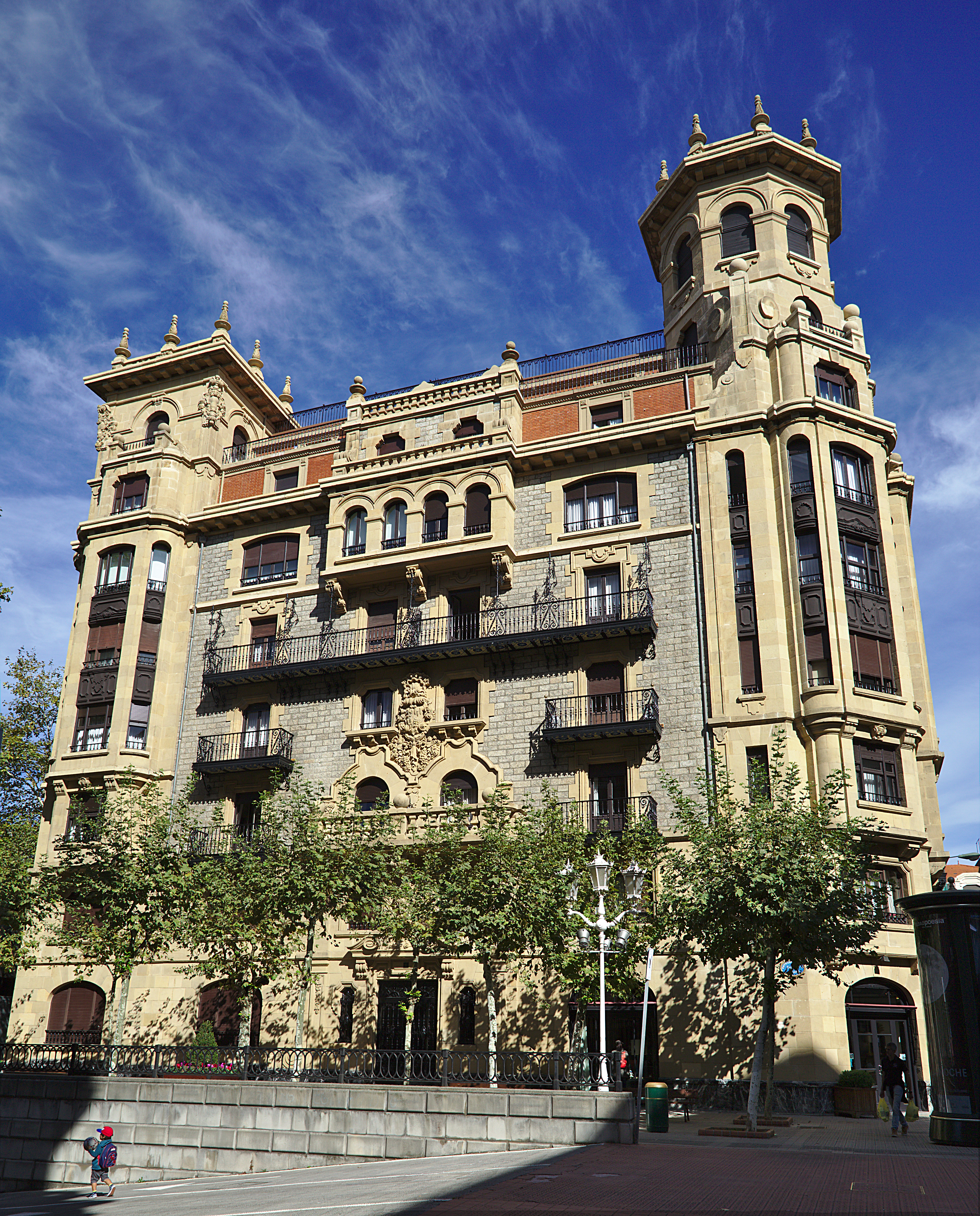 Buidings in Bilbao